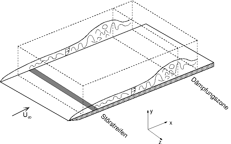 Integration domain for direct numerical simulation